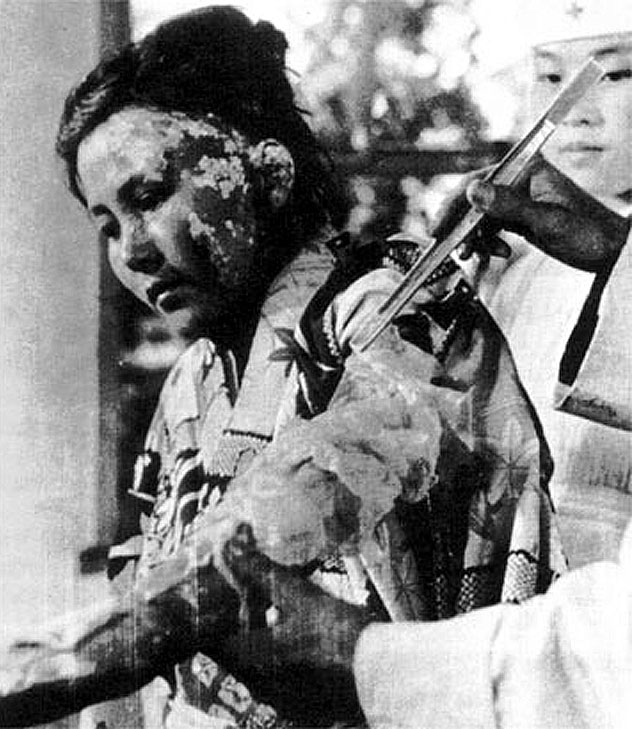 Toyoko Kugata, at age 22, receiving treatment at Hiroshima Red Cross Hospital (October 6, 1945)